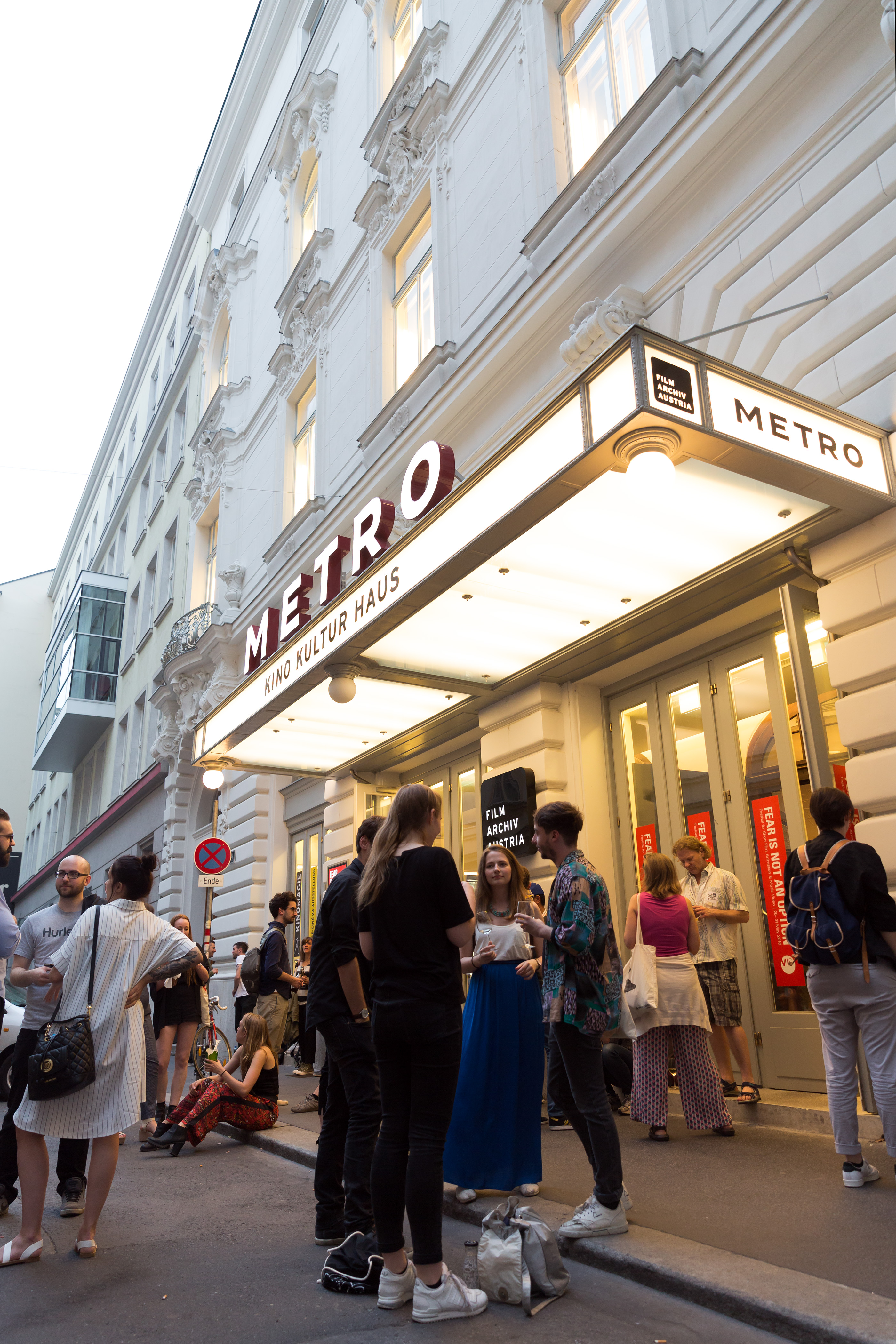 Vienna Independent Shorts (VIS) 2016 (Metro-Kino, Vienna, Austria).